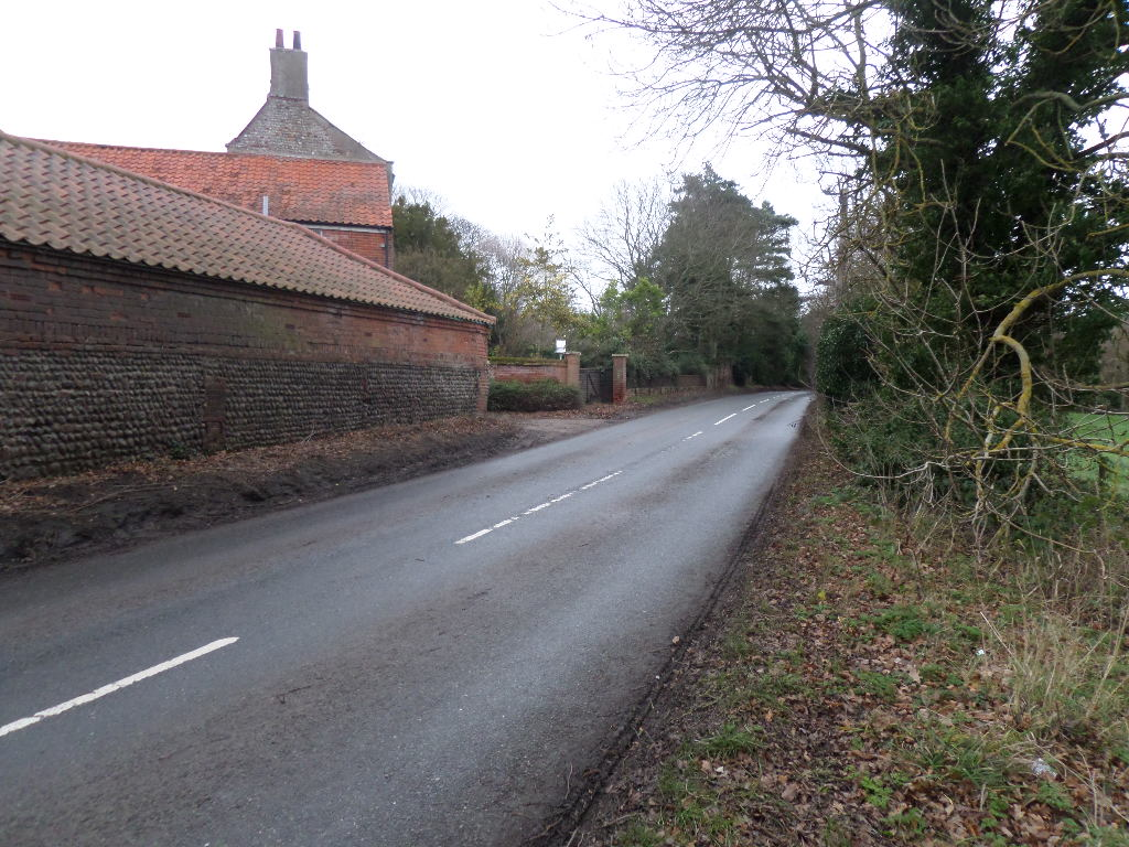 The B1145 road forms part of the boundary between Swafield and Knapton parishes.